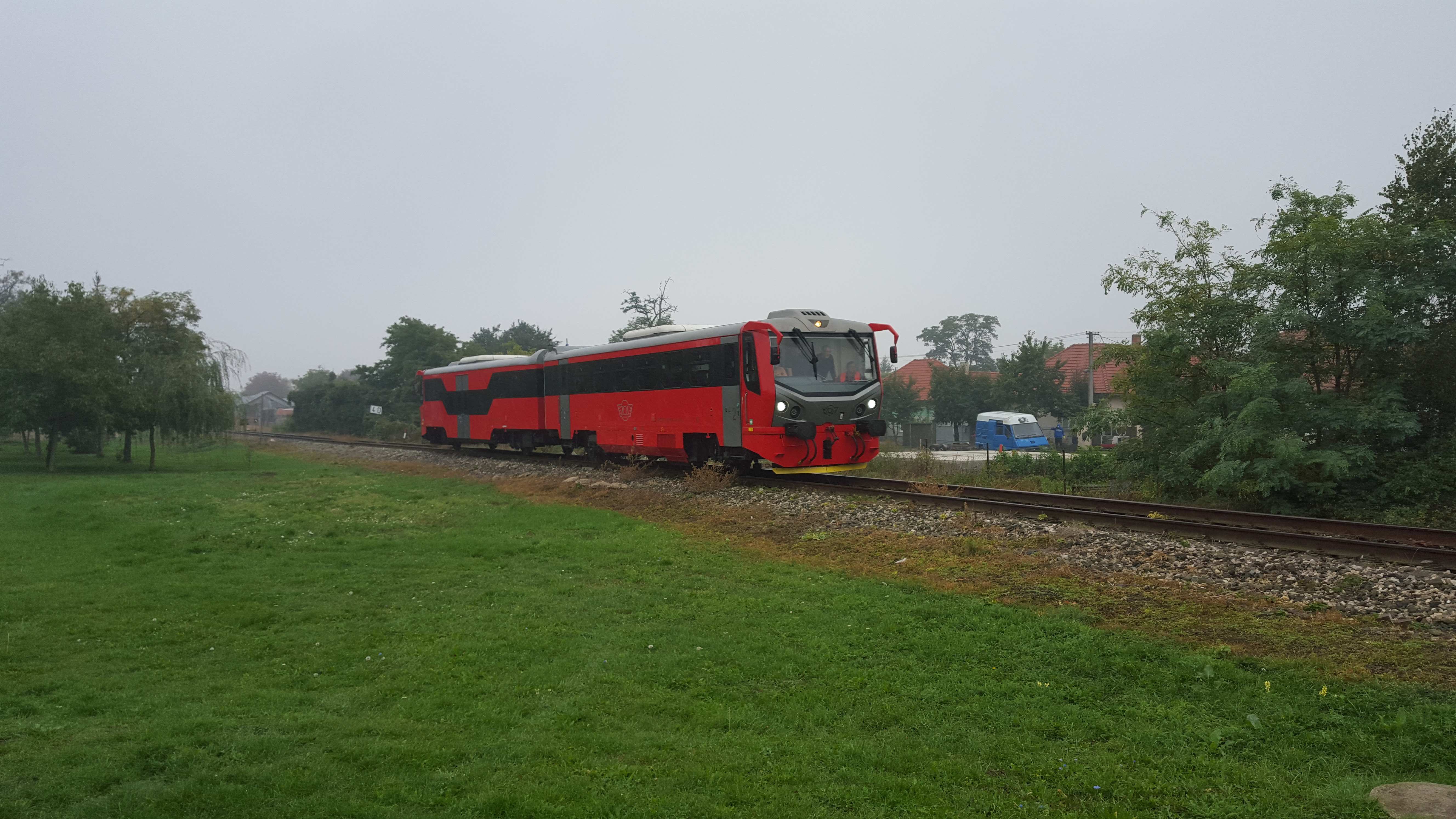 Tourist Train - a prototype diesel railcar of ZOS Zvolen - after departure from Tešedíkovo, Slovakia, on a line from Šaľa to Neded. There have been no regular passenger trains here since 2010.